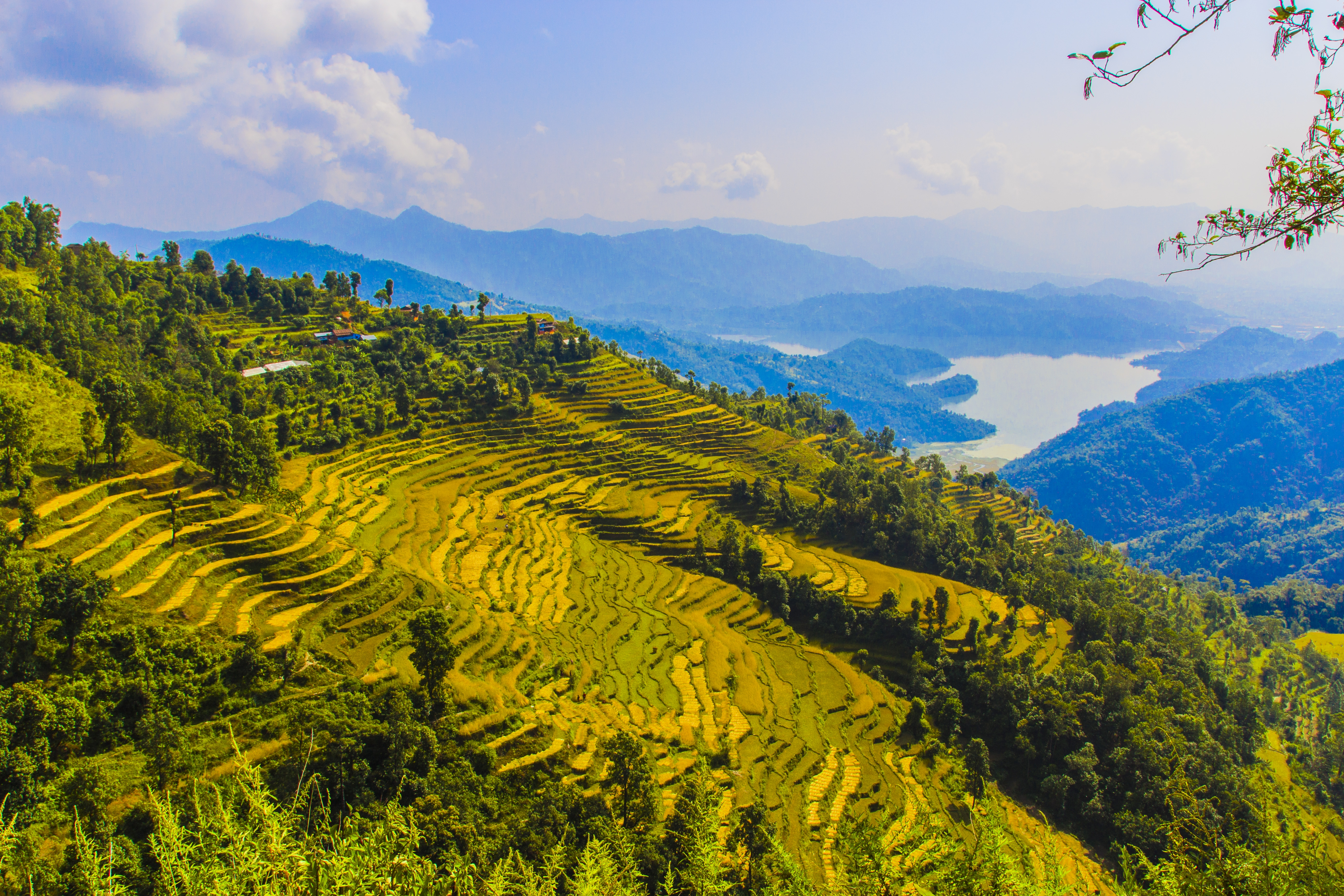 Terraced land & Begnas Lake view